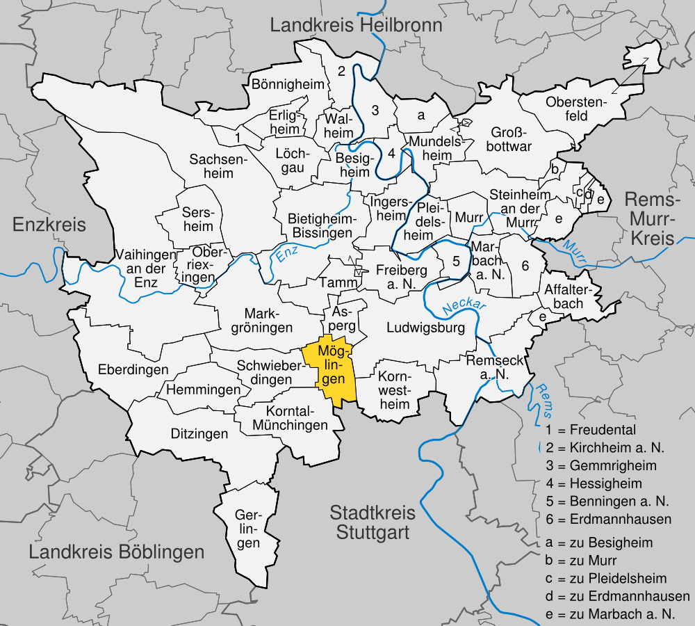 position of Möglingen within distict of Ludwigsburg, Baden-Württemberg, Germany